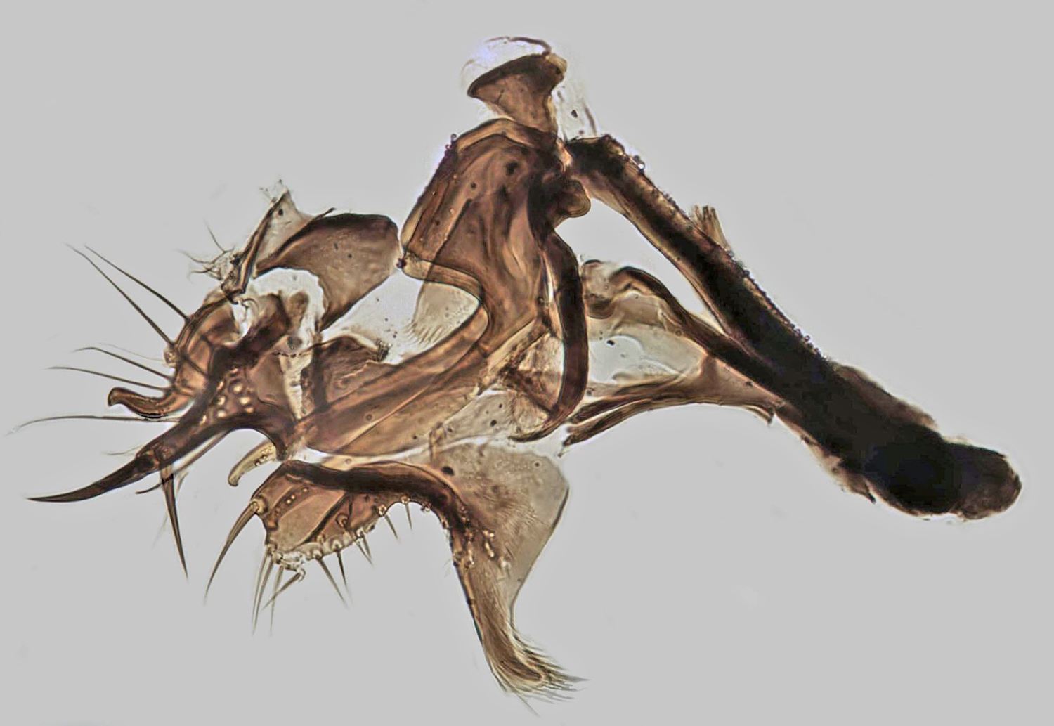 Leptocera fontinalis male, Bala lakeshore, North Wales, March 2012 2